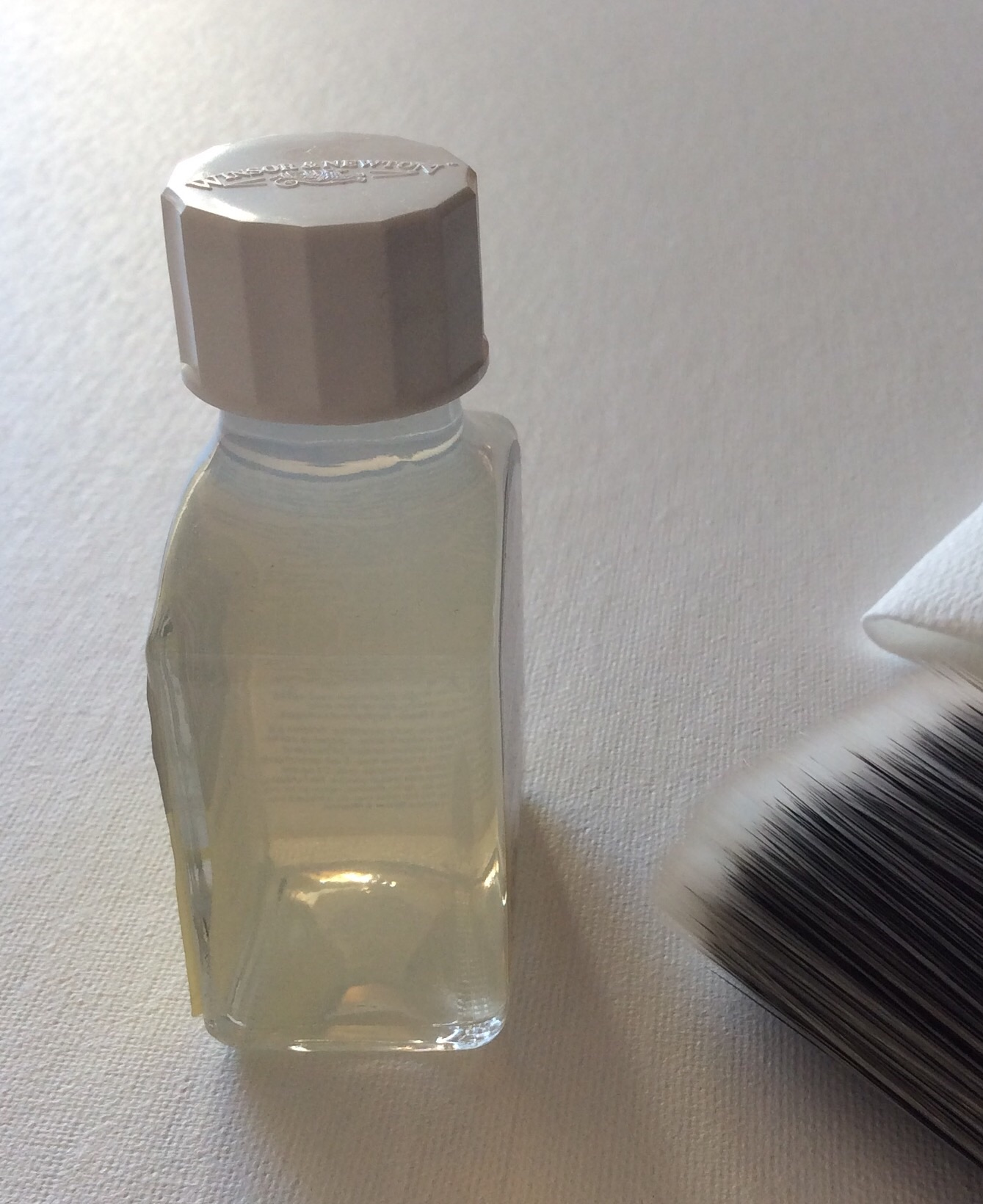 Varnish for acrylic paintings (removable)